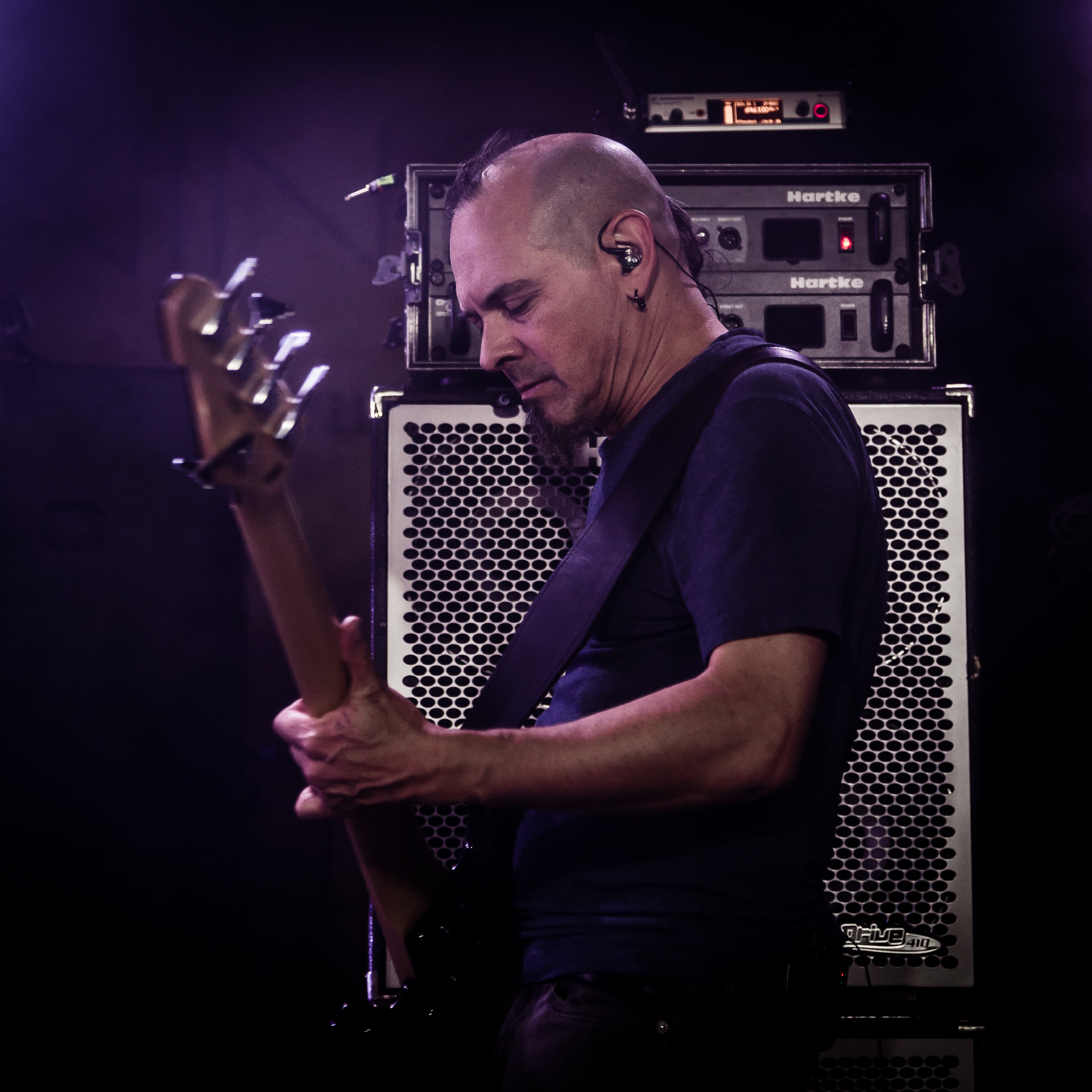 Joey Vera performing with Fates Warning at A38 Ship club in Budapest, Hungary (2018)